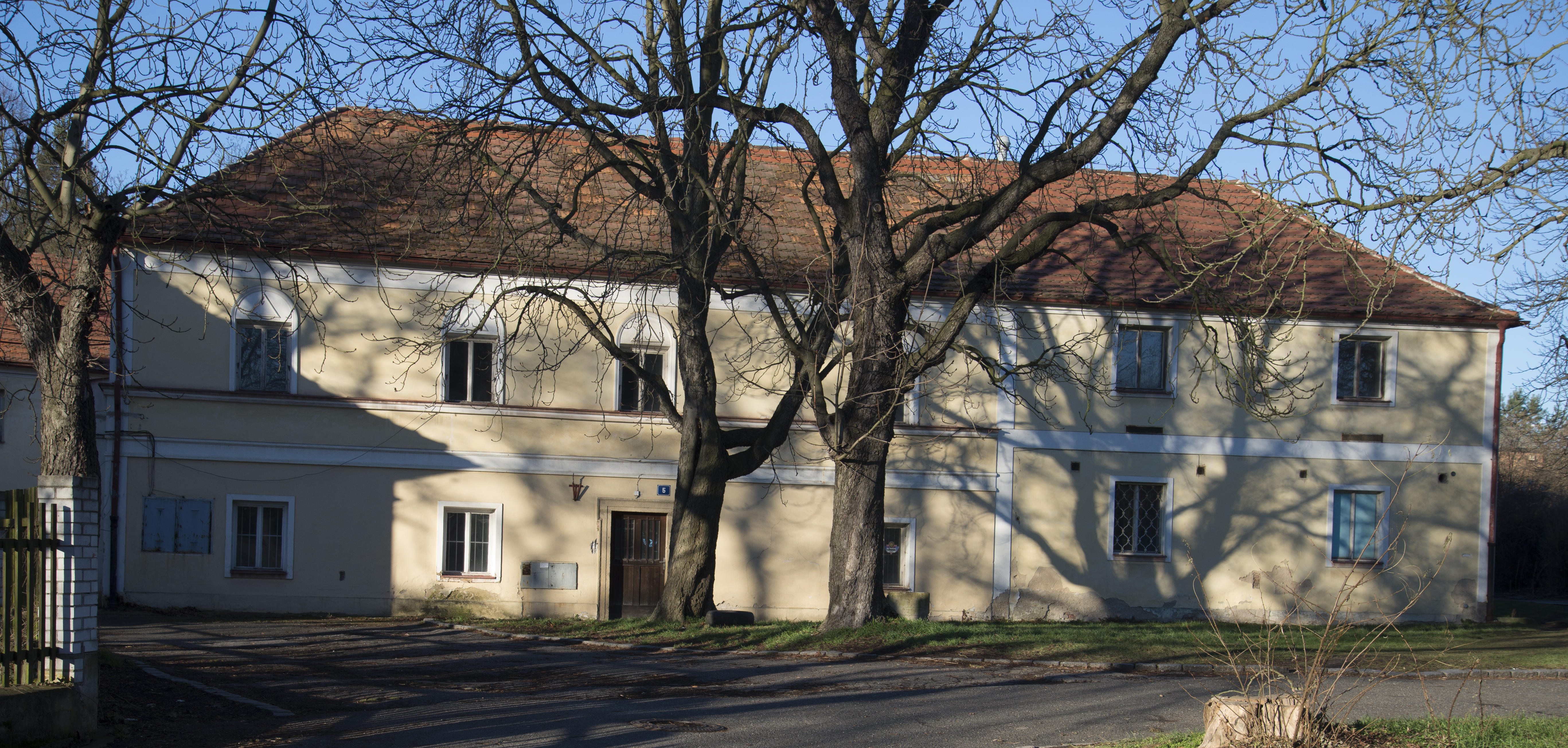 Cultural monument "Hendlův dvůr" near the church of St. Matthias, U Matěje street, Dejvice, Prague 6, Czech Republic.